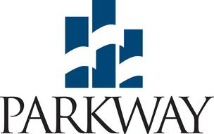 Parkway Properties, Inc. Logo